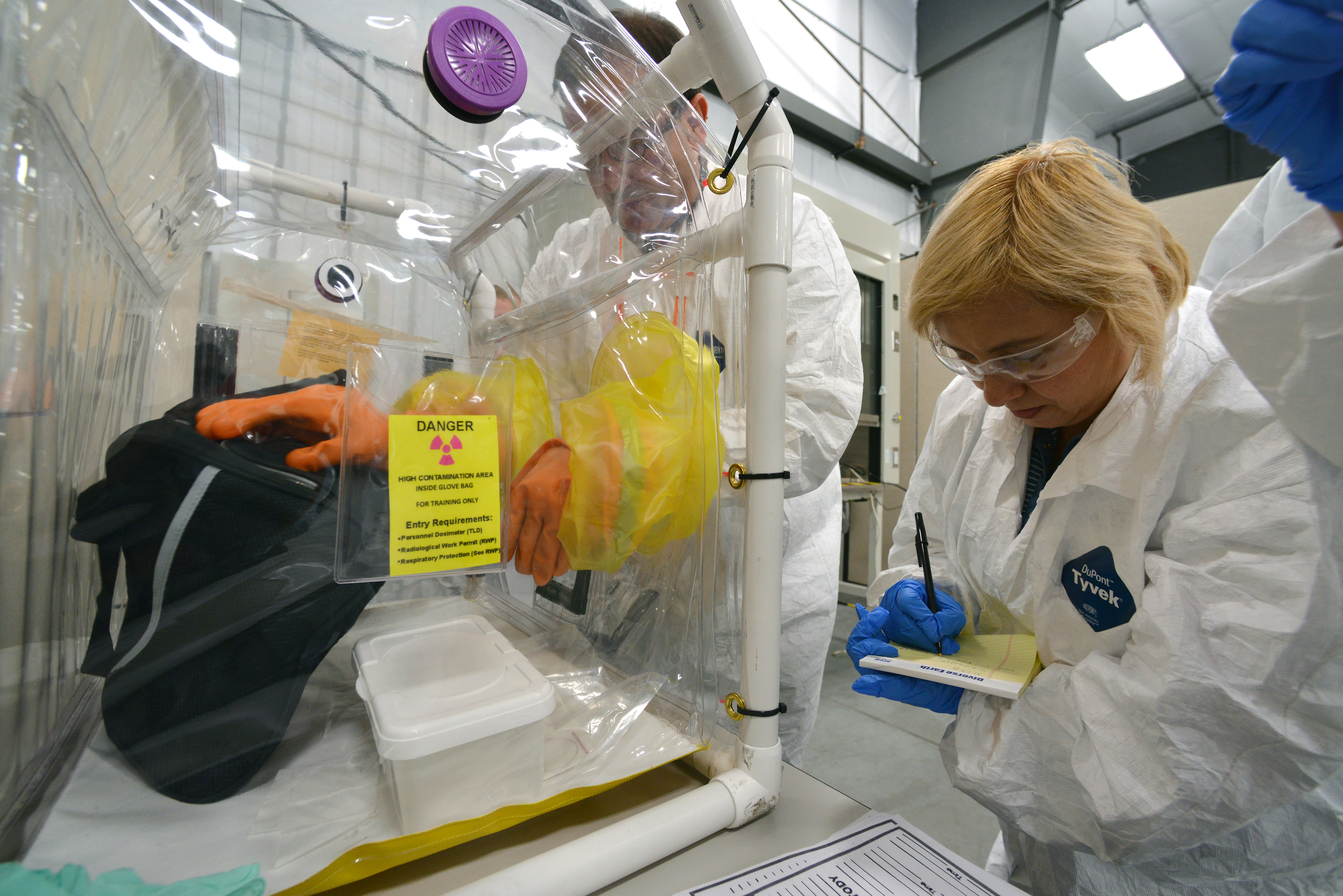 You Only Get One Chance - Nuclear Forensics in Action A package from the crime scene comes into the lab and is unpacked in a glove box, a sealed enclosure operated at negative pressure to ensure users are not contaminated by radioactive material. As records for the court, participants take notes of each stage of the unpacking, which have to be detailed and accurate. Photo Credit: Dean Calma / IAEA